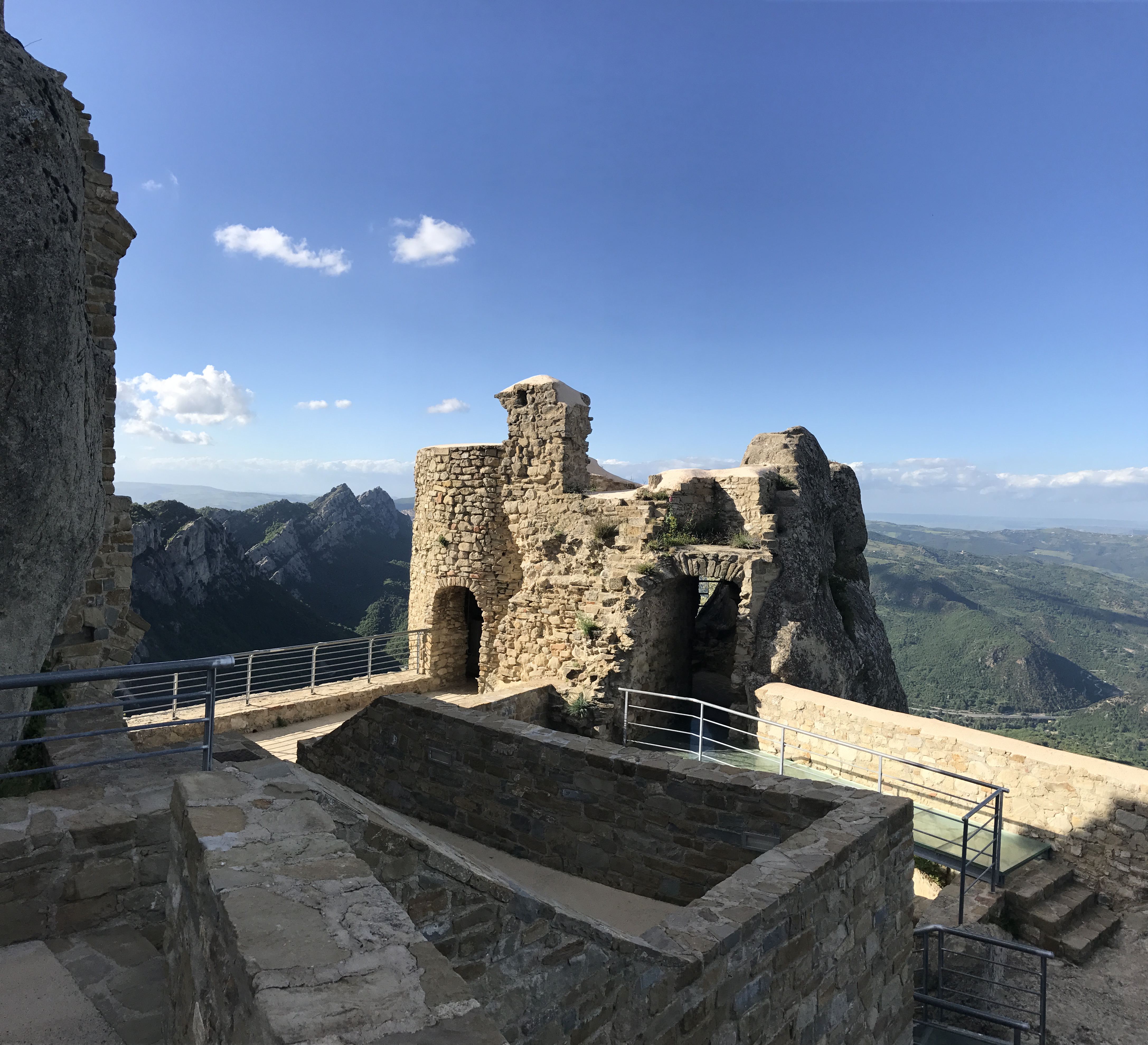 This is a photo of a monument which is part of cultural heritage of Italy.